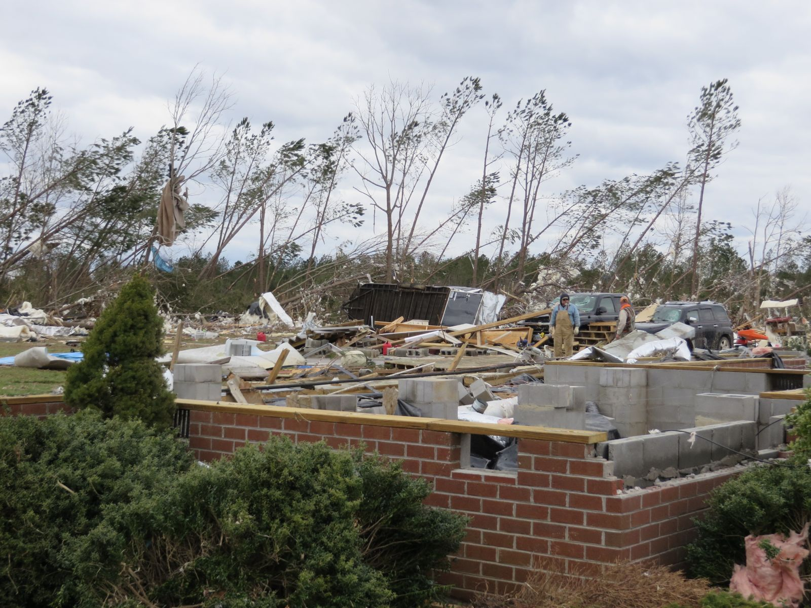 EF3 damage to a house near Dunbrooke, Virginia.